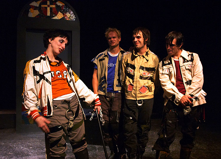 A production photo from Brad Mays’ multi-media stage production of A Clockwork Orange, by Anthony Burgess, performed in Los Angeles in 2003. The photograph was commissioned by photographer Peter Zuehlke.